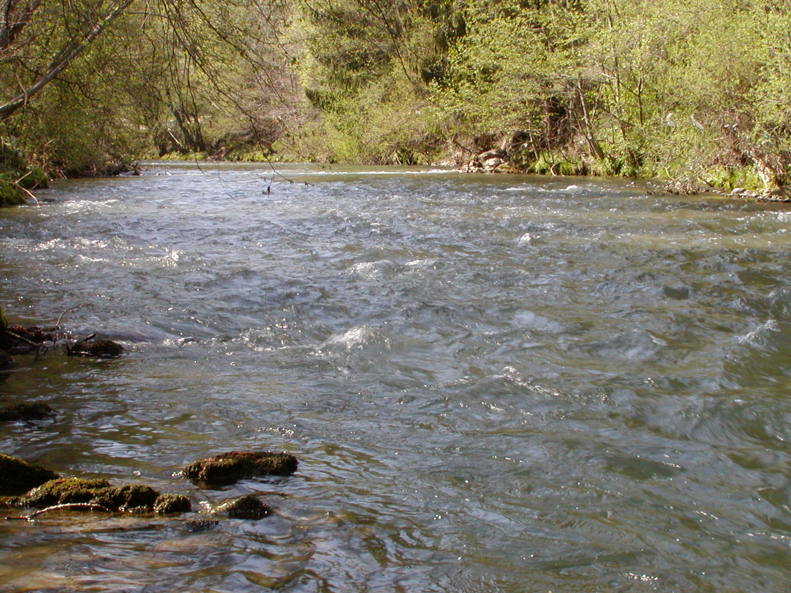 Meža River at the village Dobrije